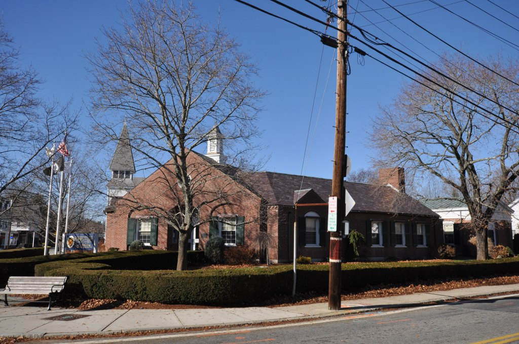 Town offices of Burrillville, in the village of Harrisville, Rhode Island.